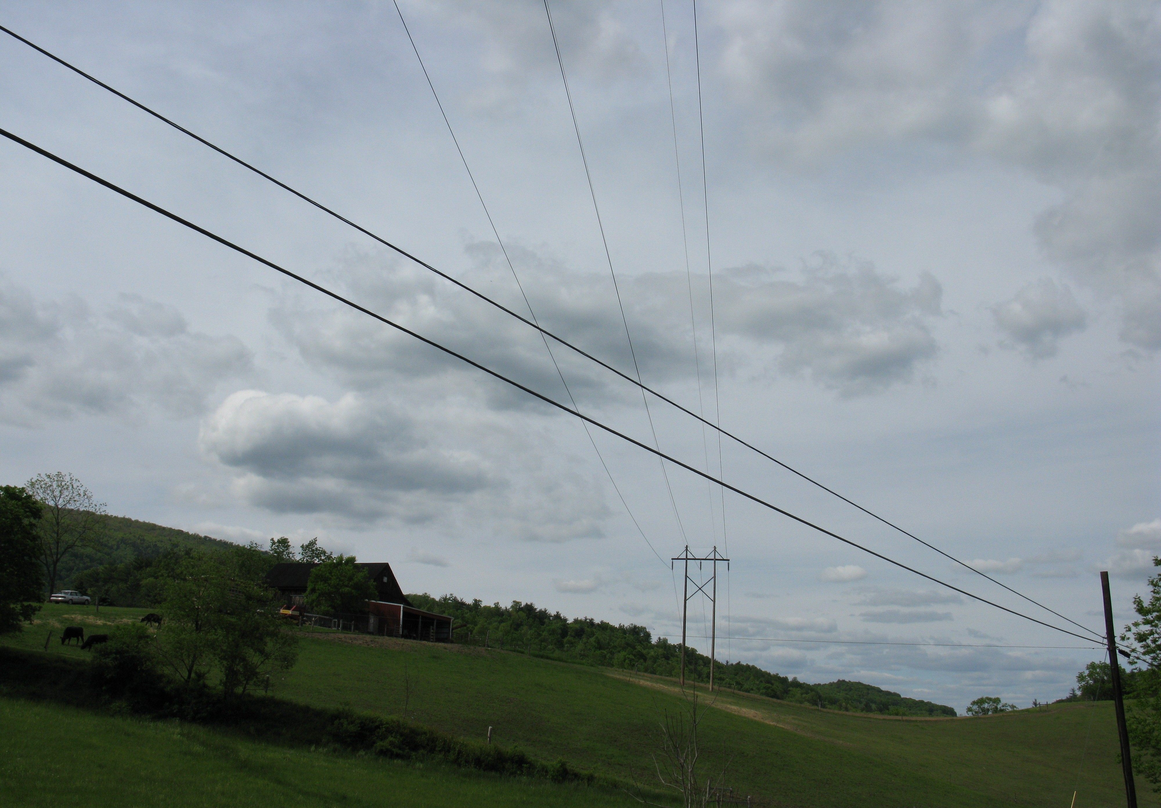 View from SR 26, Hopewell Township, Pennsylvania